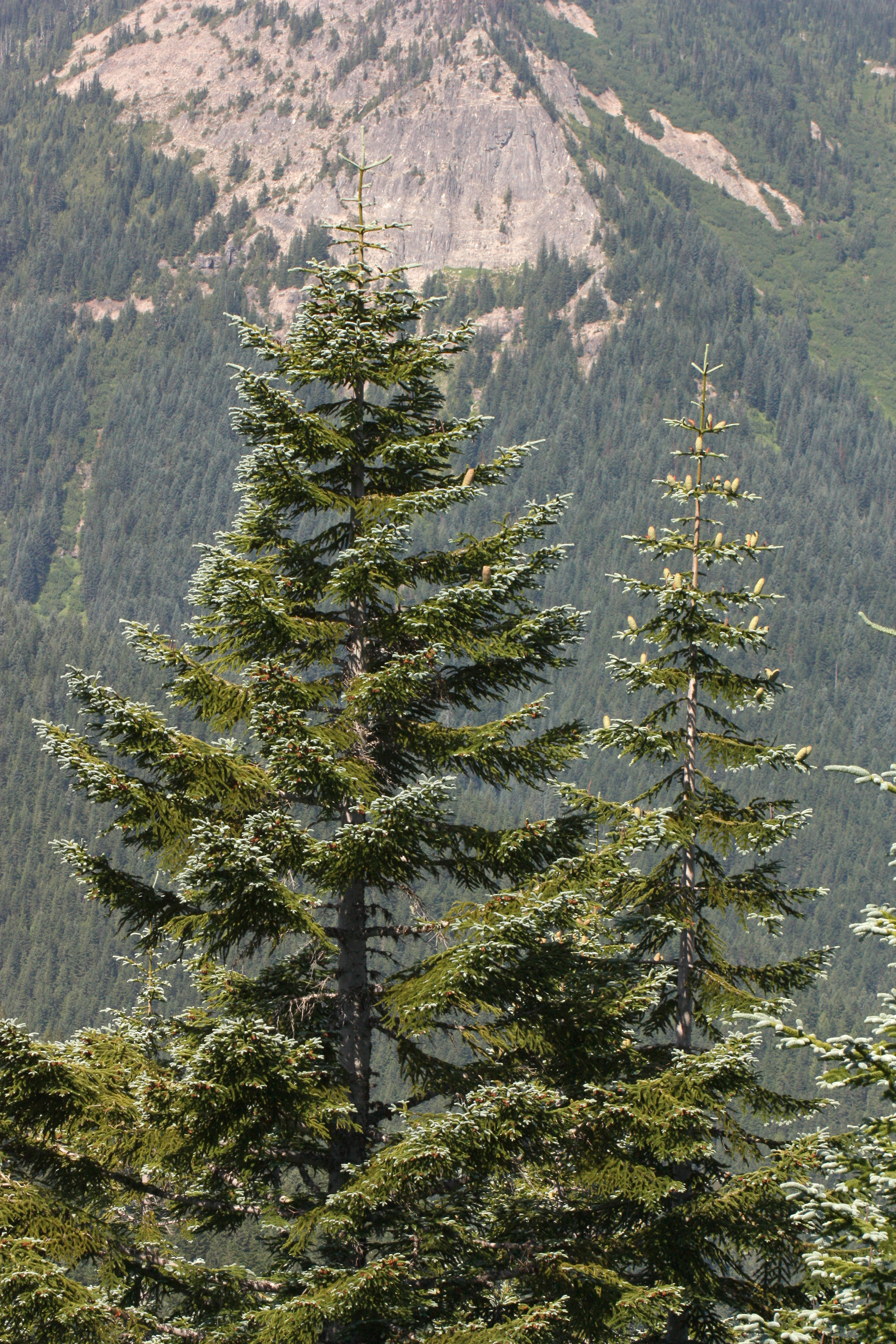 Noble Fir Viewpoint location: Juniper Ridge Trail 261 Dark Divide Viewpoint elevation: 1523 meter (4998 ft) Location source: Garmin GPSmap 60CSx Location Datum: WGS84